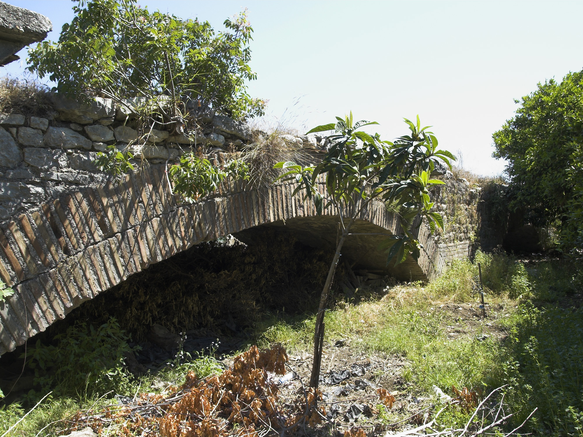 The Roman Bridge near Limyra, Lycia, Turkey. Fourth arch southside. The late antique structure is one of the oldest segmental arch bridges in the world. The 360 m long bridge crosses on 28 arches the Alakır Çayı, 26 of which being segmental arches with an average span to rise ratio of 5.3 to 1. Today, the structure is buried up to the vaults by river sedimentation.